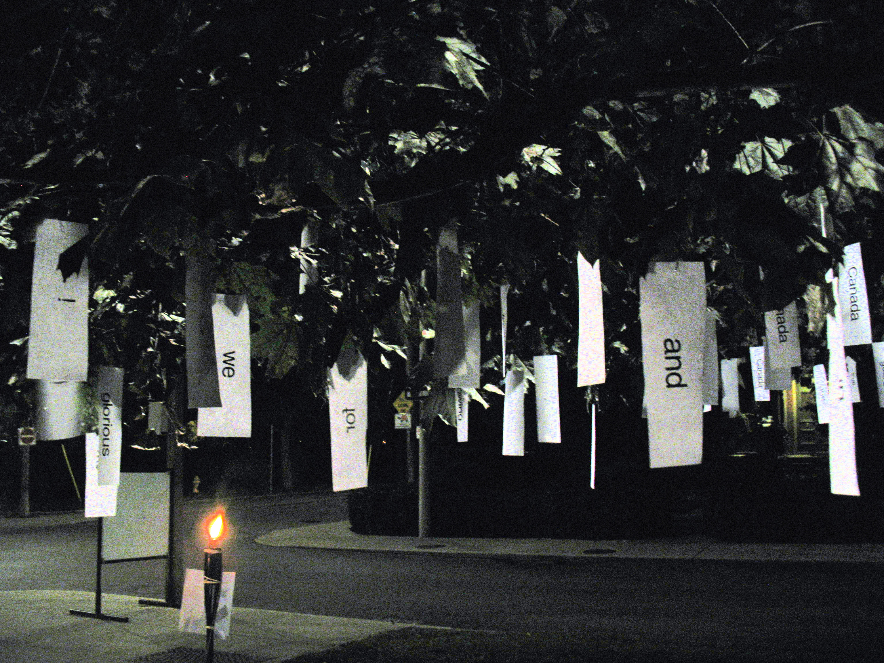 Artist: Kelly Rogers Description: "Deconstructing poetry with wind. To use nature to physically deconstruct a well-known poem by letting words individually blow in the breeze, when released from the tree. To have the public involved in reconstructing the poem by catching/collecting the words and recording the randomly reassembled new form. The reassembled poem(s) would be displayed as they appear. A contemporary art moment in the spirit of Robert Rauschenberg?s erased de Kooning drawing in 1953." Carlton Street and Sumach, October 4, 2008